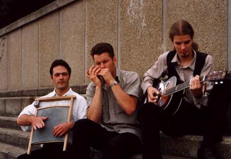 Early years - 1995